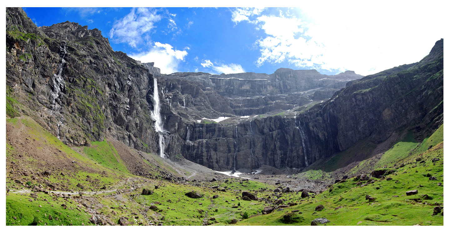 View of the Falls and the Cirque of Gavarnie